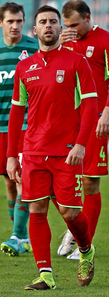 Aleksandr Sukhov with FC Ufa in a friendly game against FC Lokomotiv Moscow.